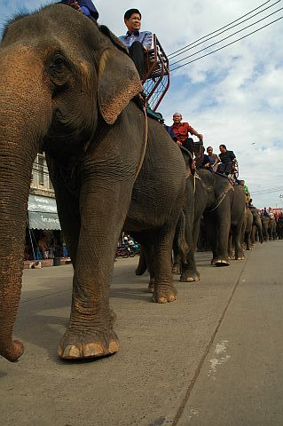 Elephant procession during annual Elephant Round-up in Surin (Thailand).